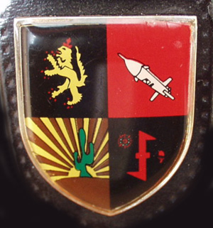 300th Drone Training Battery